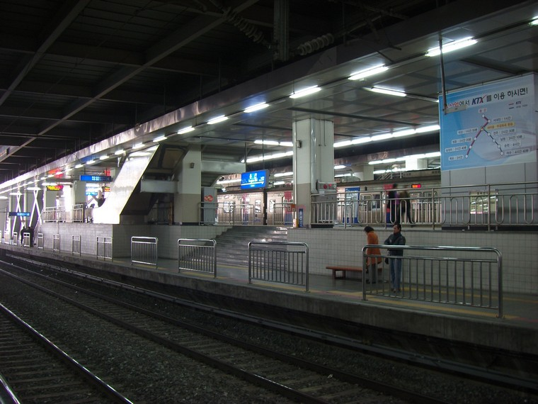 Yongsan station